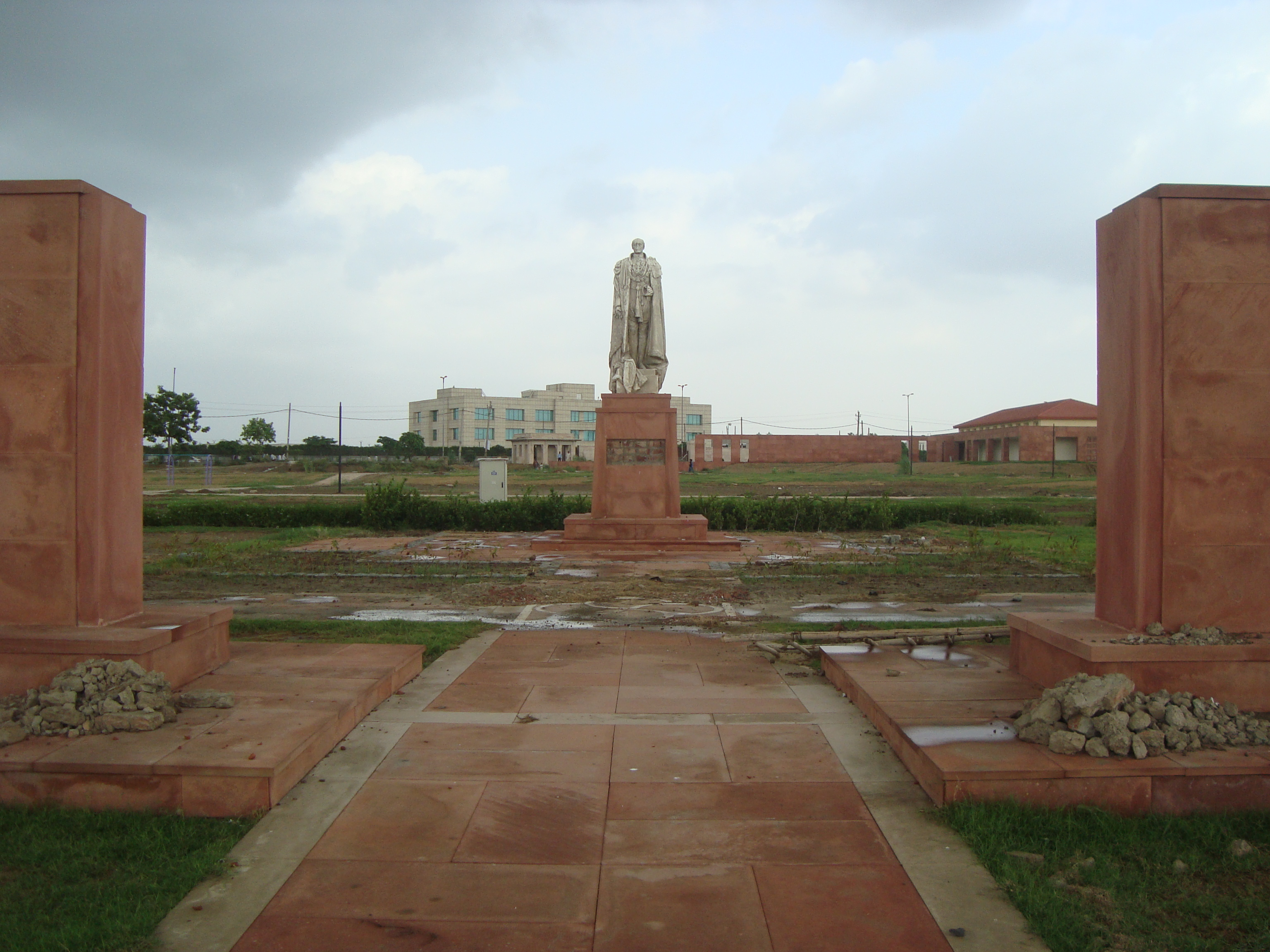 Coronation Park, Delhi